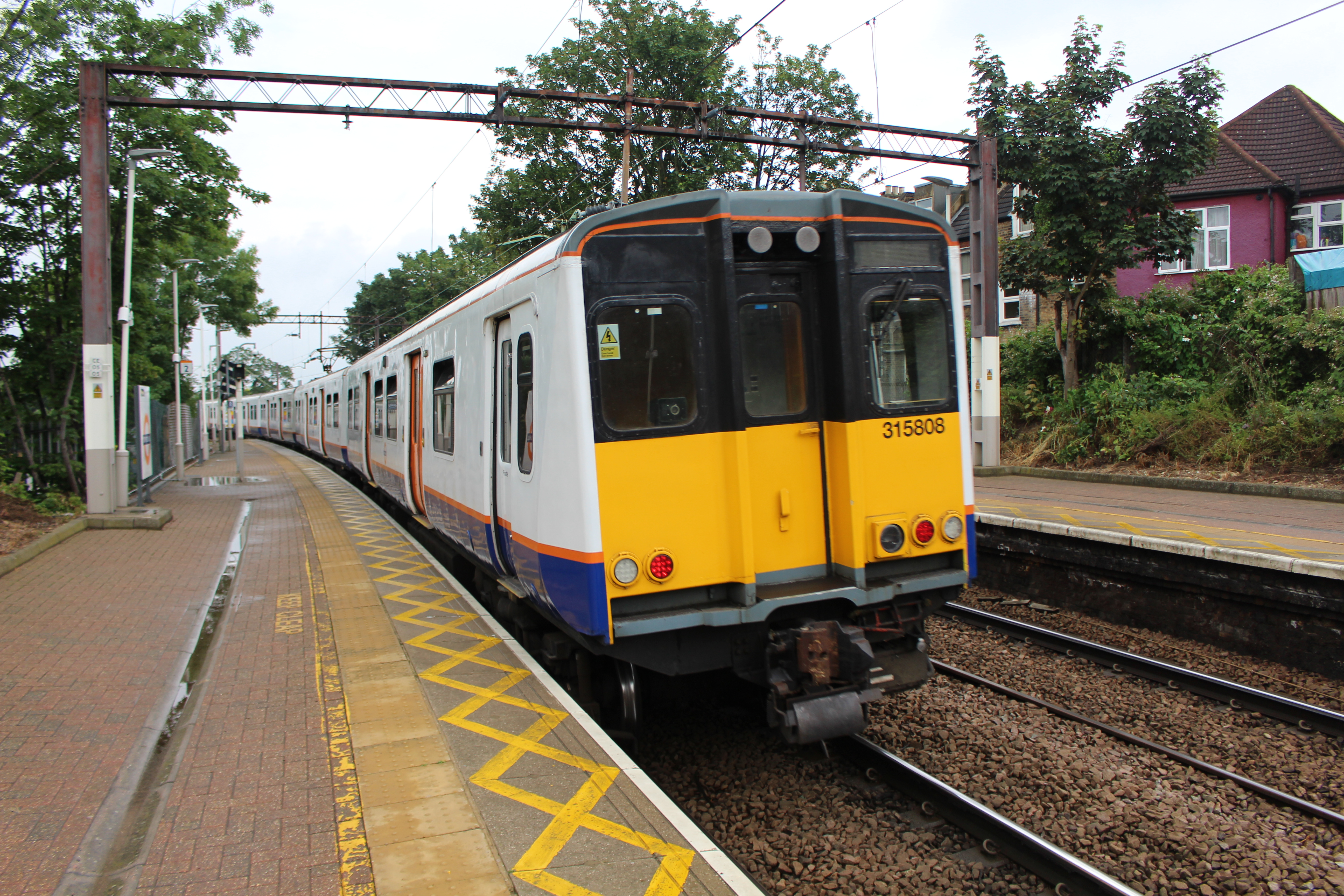 A train.